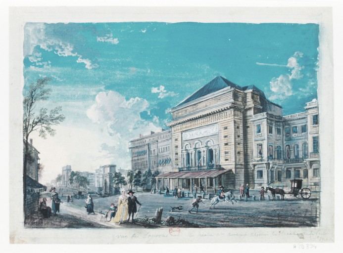 The first Théâtre de la Porte Saint-Martin (built 1783) on the Boulevard Saint-Martin in Paris. The building was destroyed by fire in 1871 and replaced with a new theatre in 1873. This watercolor is by Jean-Baptiste Lallemand, from 1790. On the left of the theater one can see the Porte Saint-Martin, and a bit further on the Porte Saint-Denis.